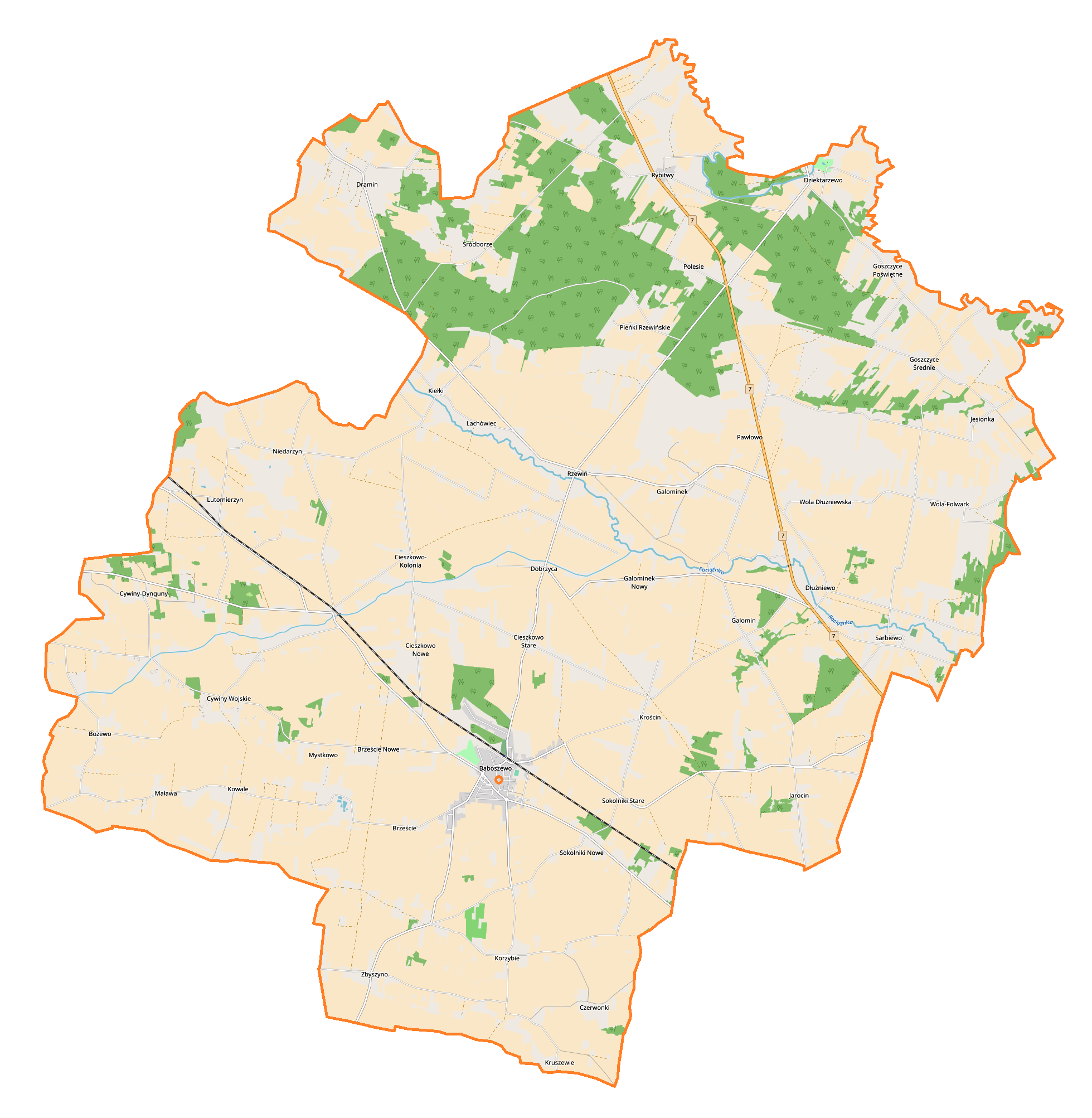 Map of Gmina Baboszewo, Poland This map of Baboszewo (gmina) was created from OpenStreetMap project data, collected by the community. This map may be incomplete, and may contain errors. Don't rely solely on it for navigation.